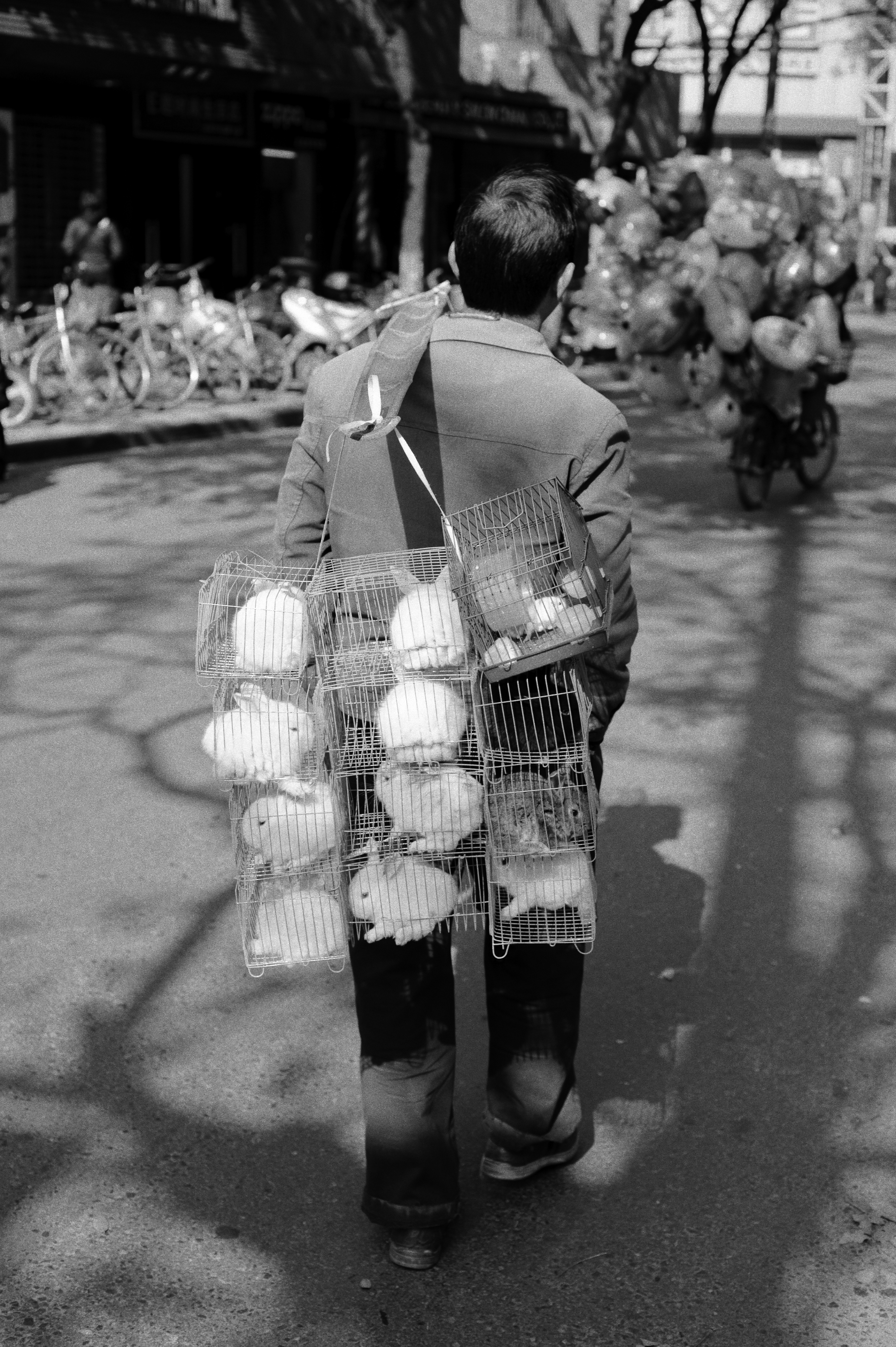 In Nanjing, a man is carrying some cages on his shoulders. Inside the cage are some small rabbits sold as pets in China.